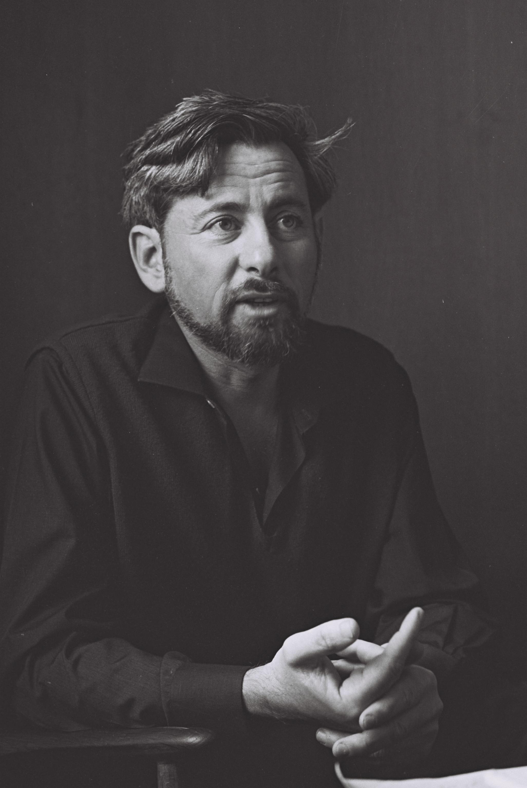 Mr. Uri Avneri, member of Knesset, Haolam Aaze, Koach Hadash party.